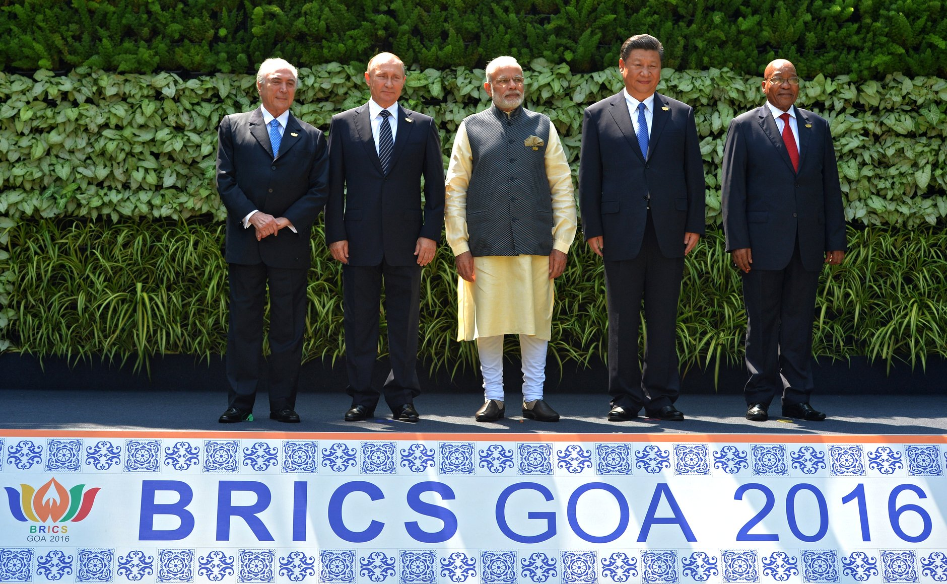 Joint photo session before the start of the 2016 BRICS summit in Goa